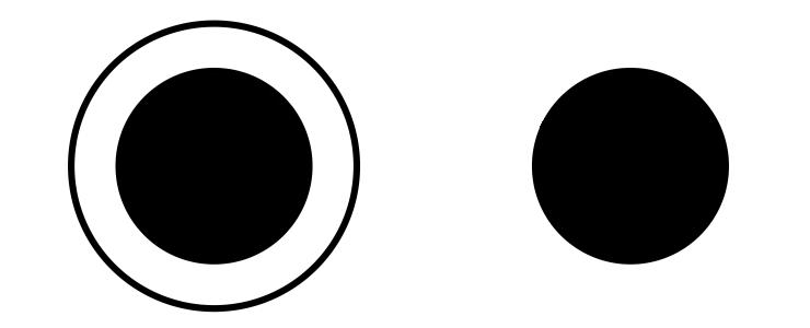 Delboeuf illusion